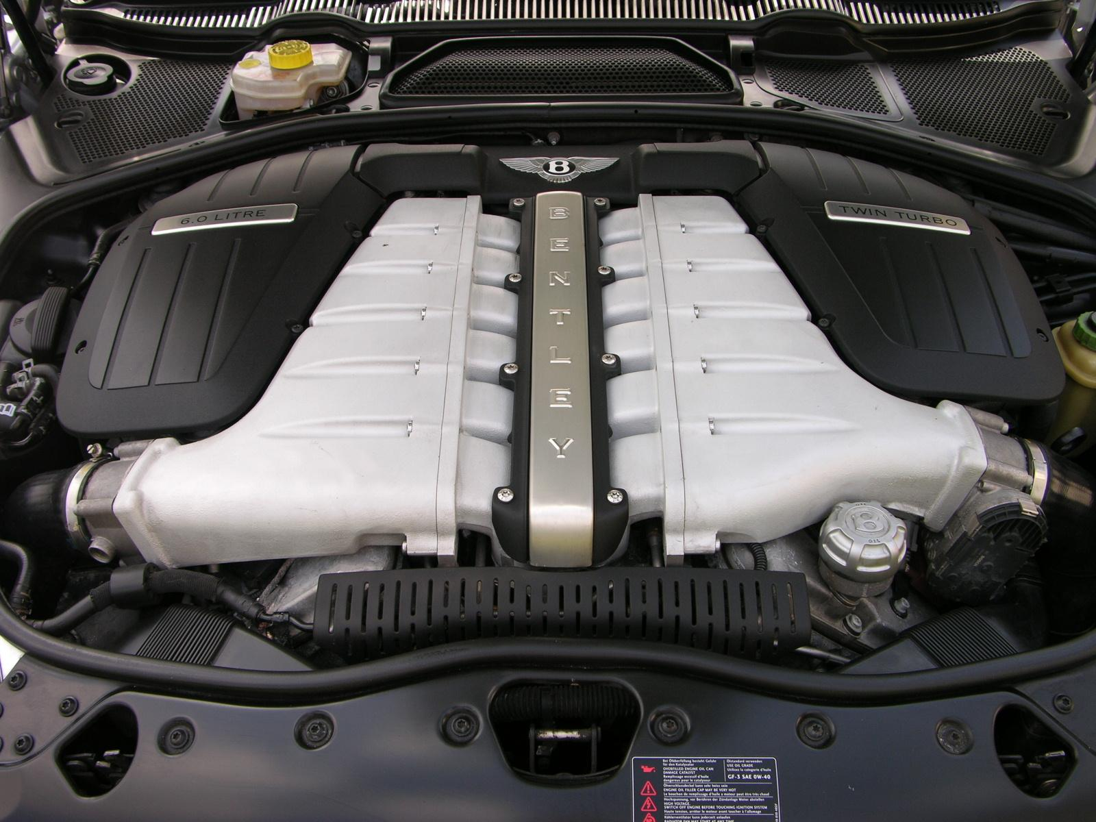 2006 Bentley Continental GT Mulliner